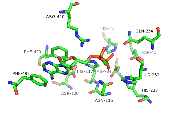 The active site of 5'nucleatidase complexed with inhitor adenosine 5'-metylene disphosphate bound. Generated in Pymol from PDB ID 1HPU.